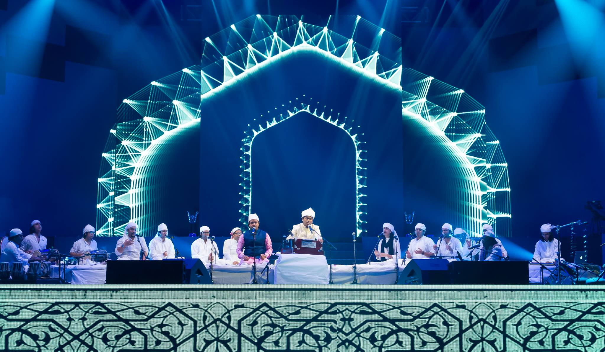 Sufi Ensemble